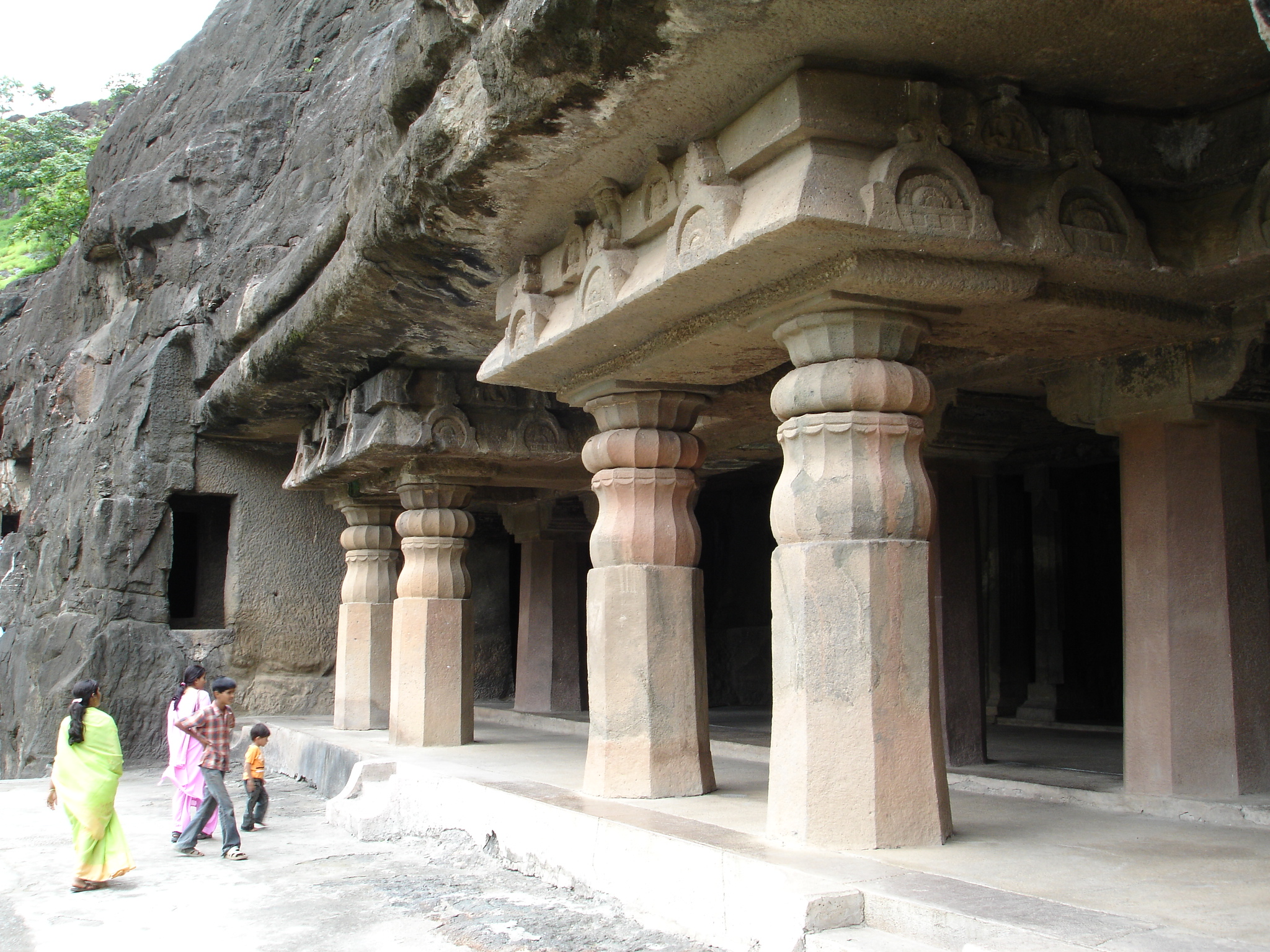 thumb|200px|right|Ajanta Caves